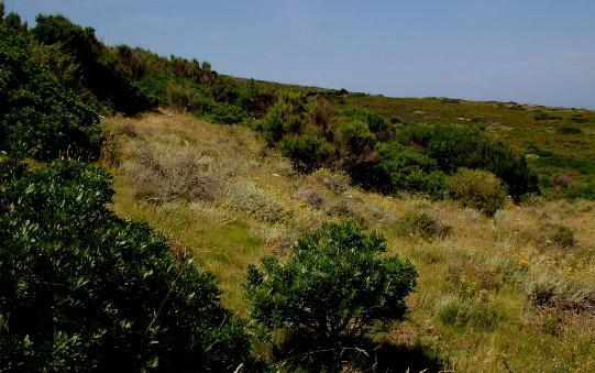 Plantes, typical of the maquis, invading the garrigue near Ile Rousse, Corsica